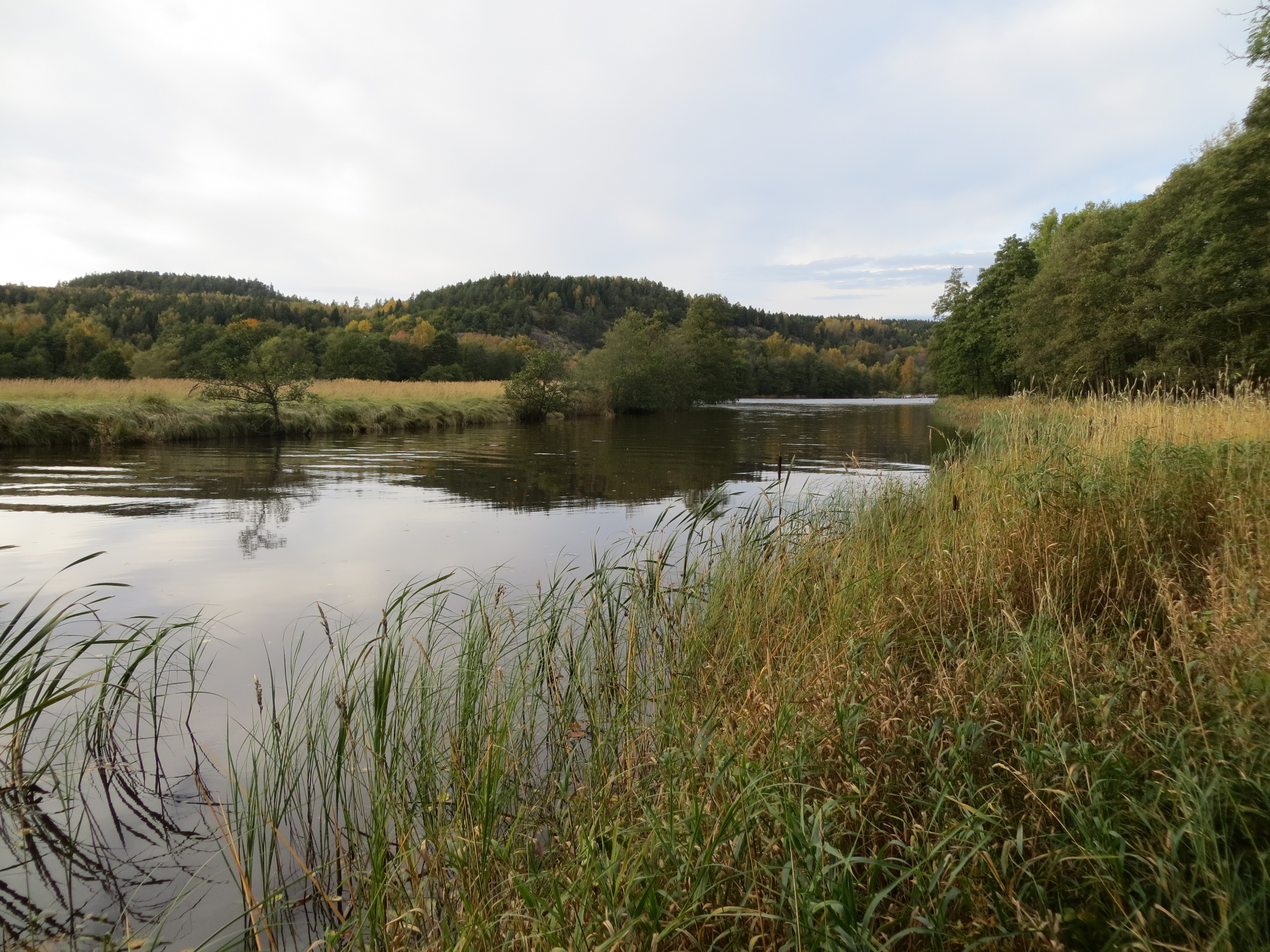 Saltkällan is a little village in the southern part of Munkedal municipality, Bohuslen, western Sweden. It is situated in the northeastern bottom of the Gullmarsfjorden fjord.